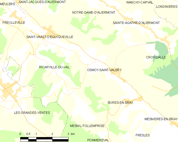 Map of French municipality Osmoy-Saint-Valery